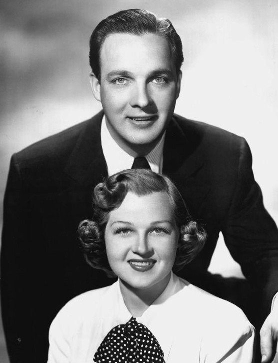 Photo of Bob Crosby (brother of Bing) and Jo Stafford from the radio program Club 15.